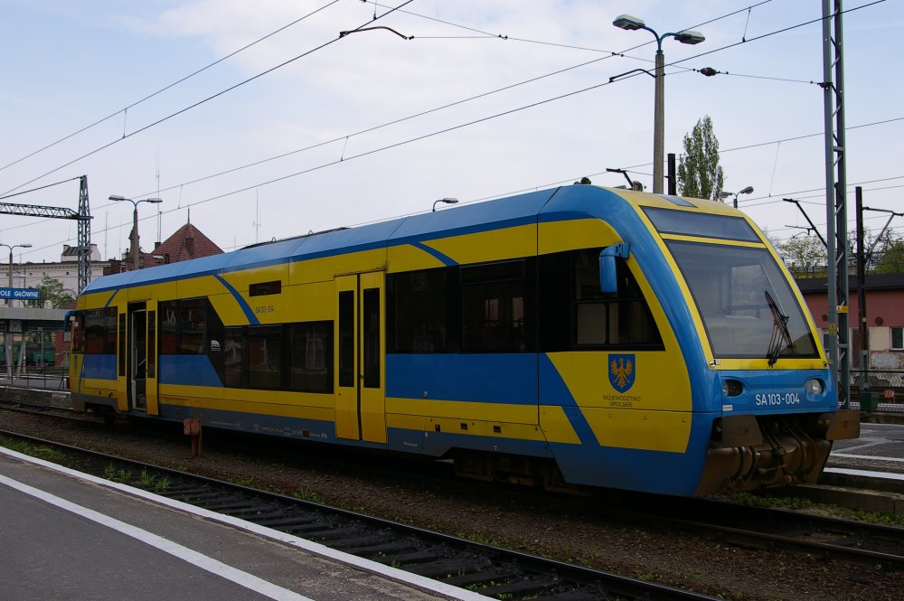 Railbus SA103 (produced by Pojazdy Szynowe PESA Bydgoszcz SA) in Opole Główne railway station. 2. May 2006. Author: Gabriel Tendera. Some rights reserved. Lens: Pentax SMC-DA 18 55 MM F/3.5 5.6 AL